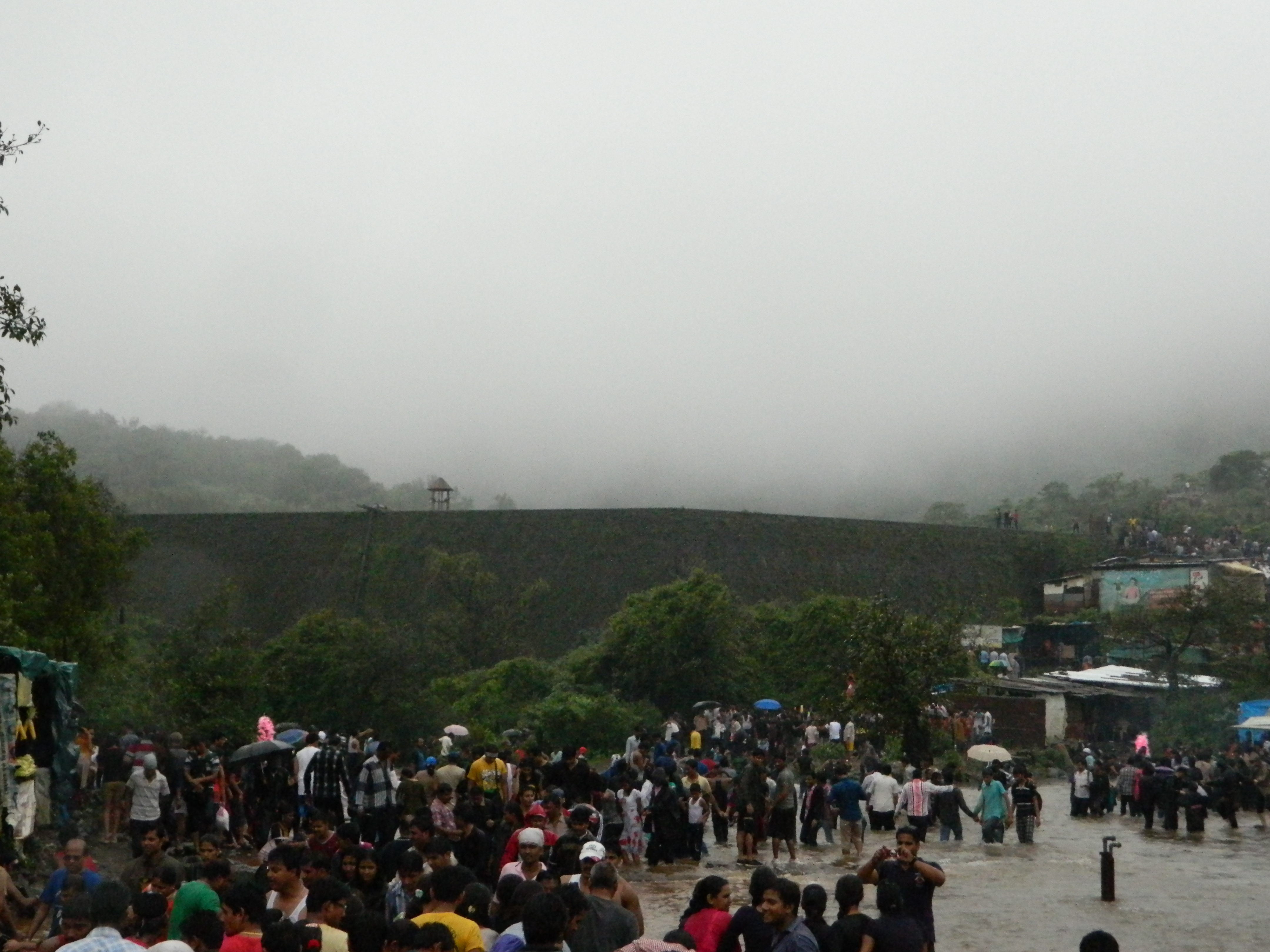 Bhushi Dam